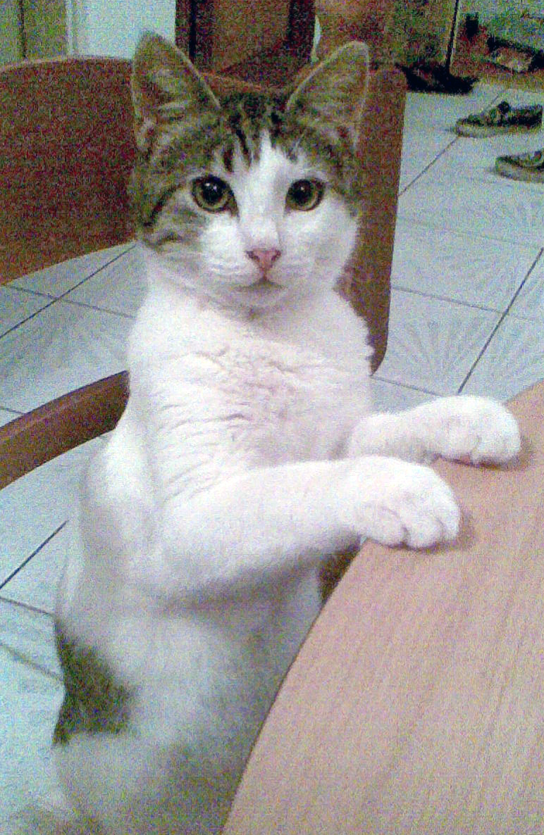 The Aegean cat can be house-friendly and obedient, taking after the habits of its owners as well as the training it receives throughout its childhood. Pictured is Areta, a juvenile male Aegean cat.